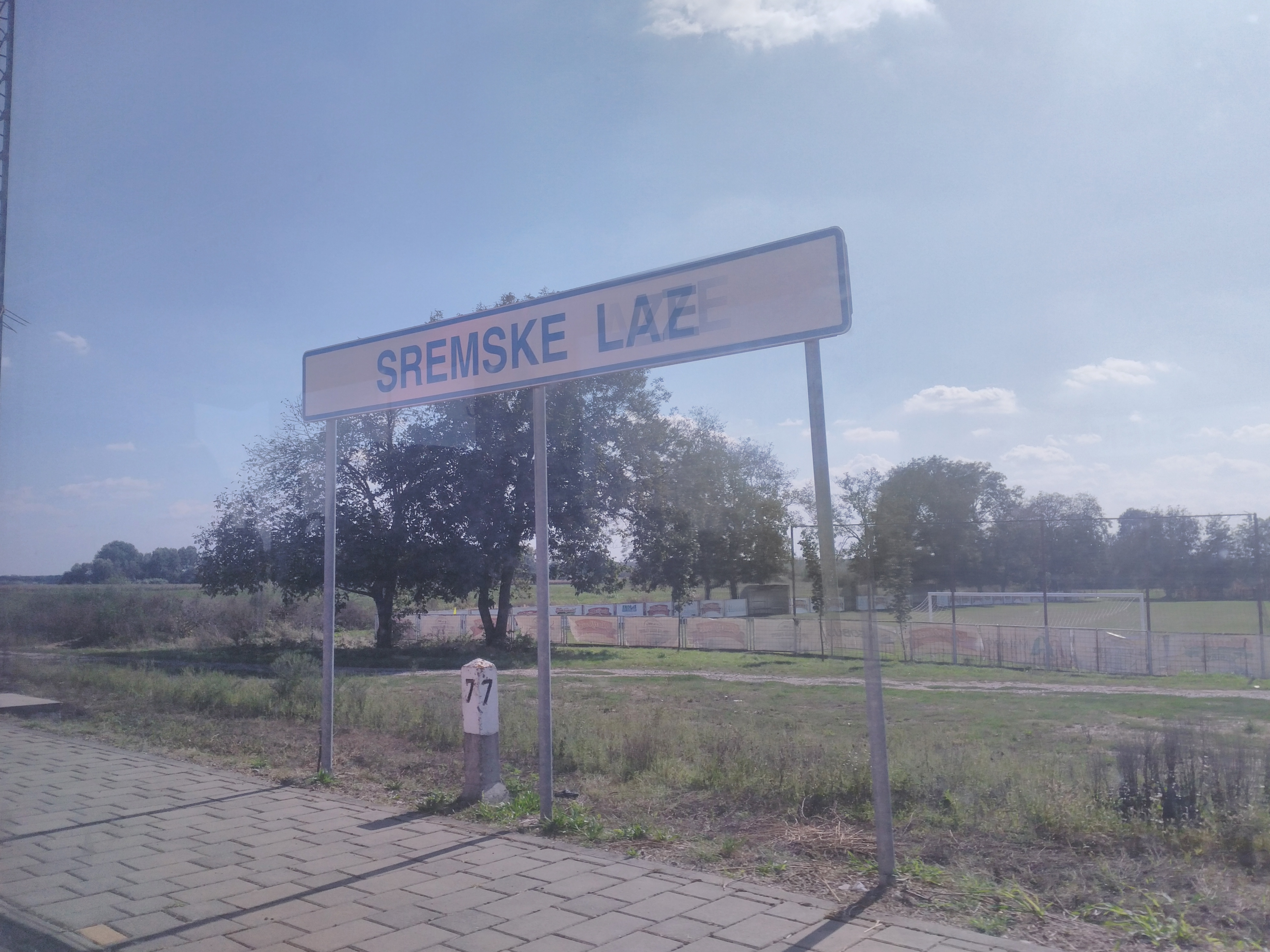 Train Station